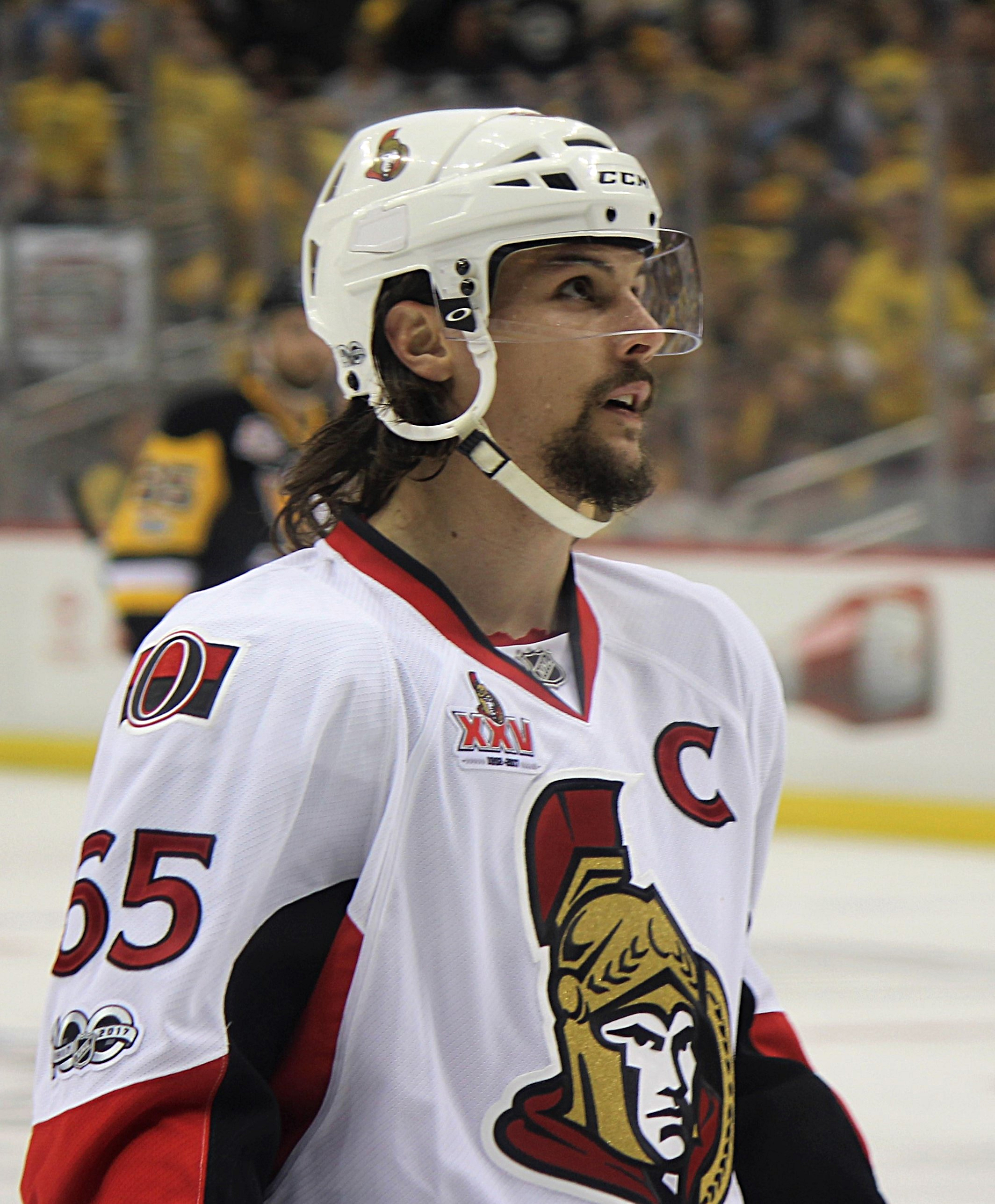 Ottawa Senators captain Erik Karlsson during a playoff game against the Pittsburgh Penguins, May 13, 2017, at PPG Paints Arena in Pittsburgh, PA.